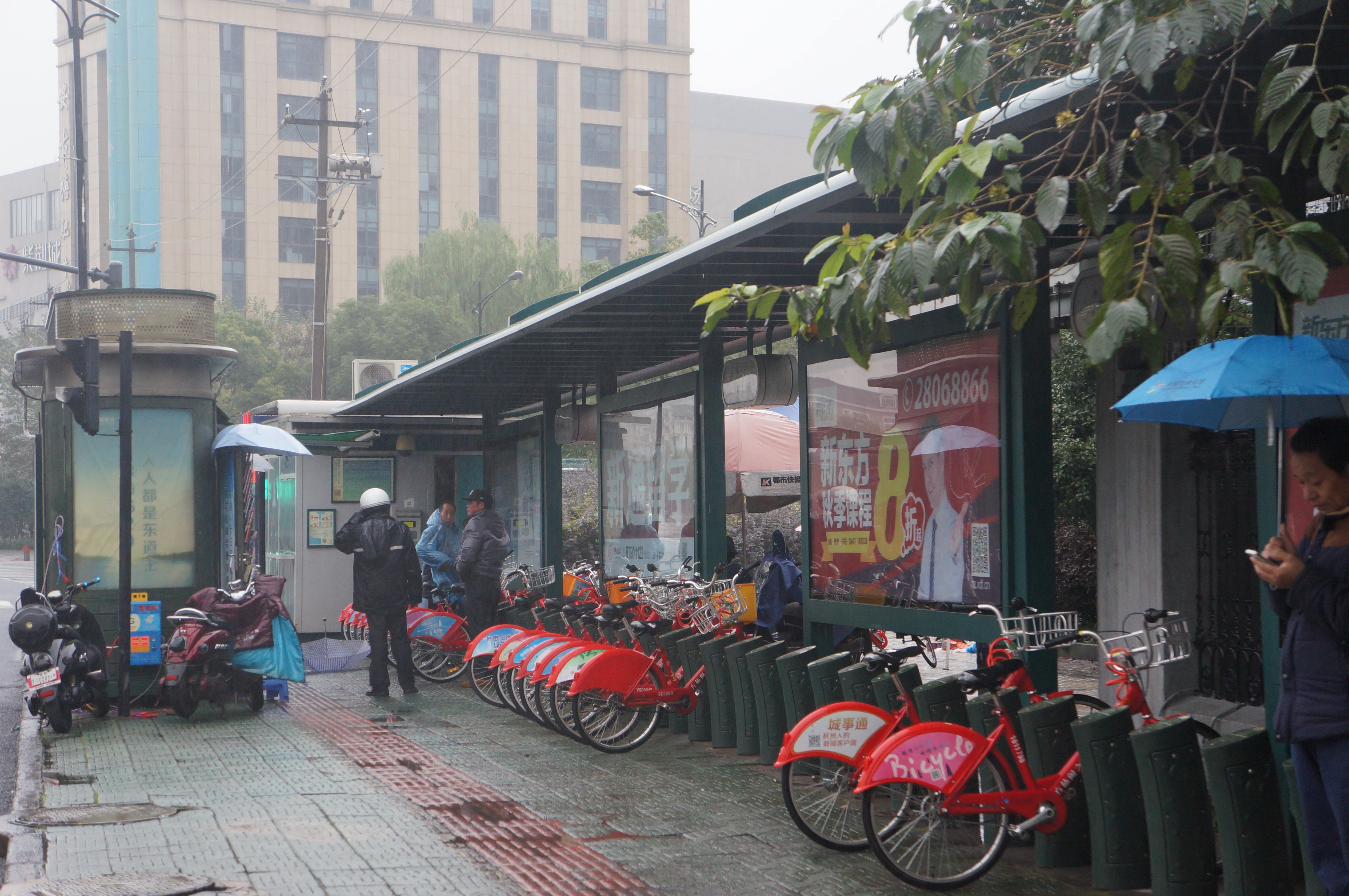 201611 Hangzhou Public Bicycle rack point near Zijingang